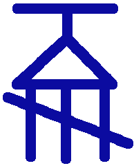 Peter Missing's logo, an upside-down martini glass, that means party's over/time for a change. It can be found on all of his paintings and albums.